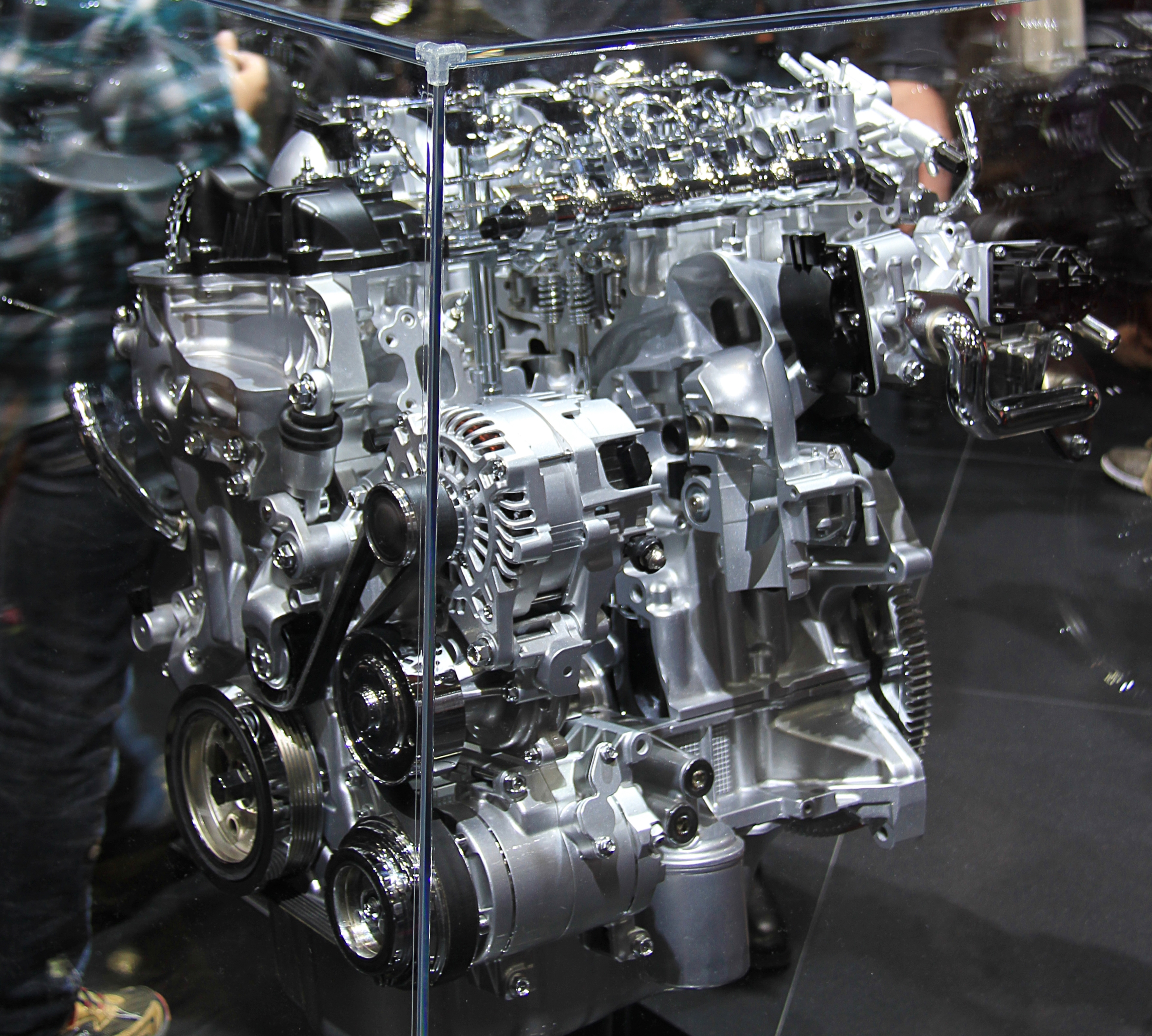 Mazda SKYACTIV-D